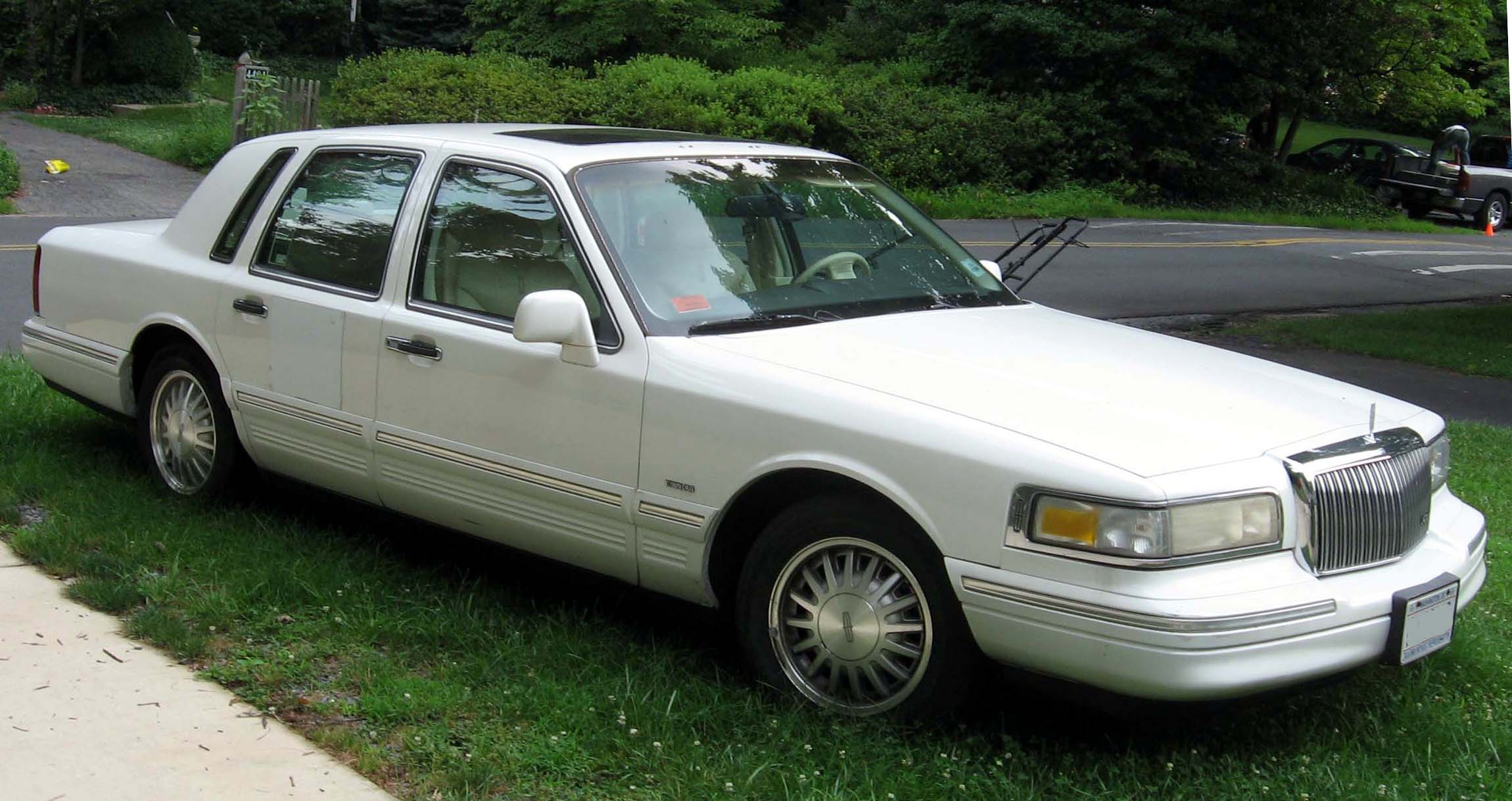 1995-1997 Lincoln Town Car photographed in USA.